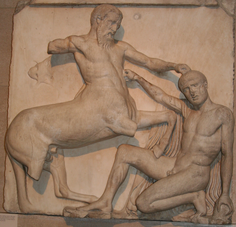 Photos taken in the Roman Gallery - British Museum